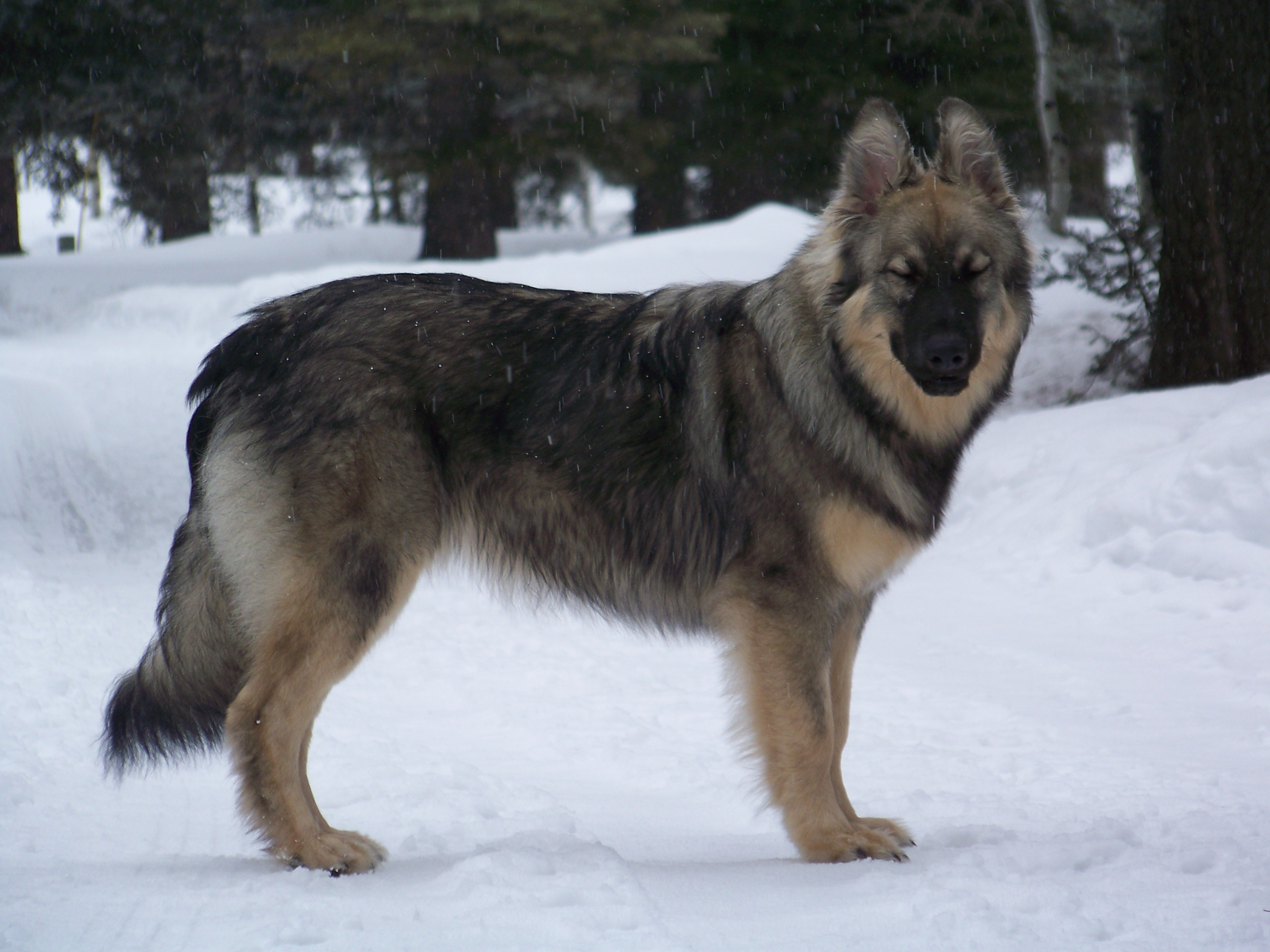 This picture is of a 7 month old Alsatian Shepalute standing in the snow in the winter of 2009.